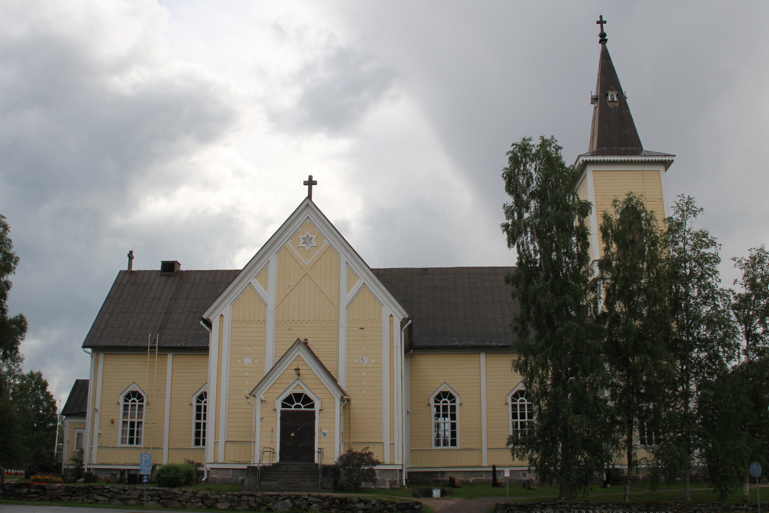 Nivala church, Nivala, Finland. - Seen from north.